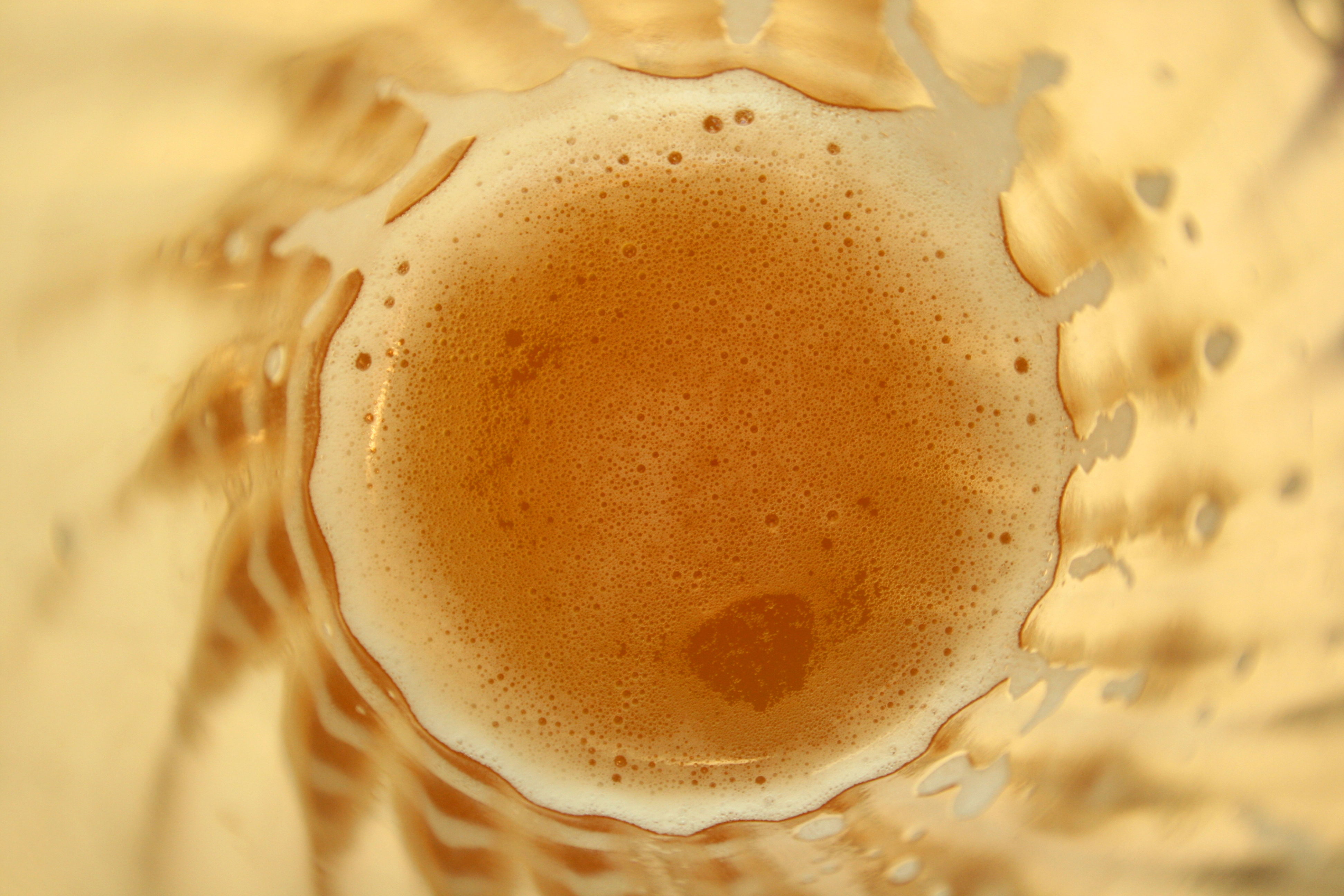 Beer at the bottom of a glass.